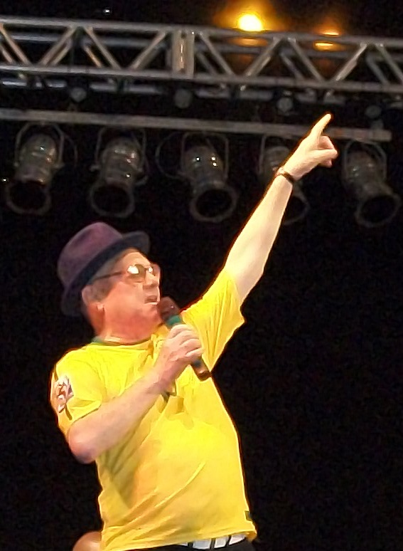 Brazilian singer Germano Mathias during show in São Paulo.